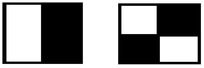 3rd and 4th kind of Haar Feature